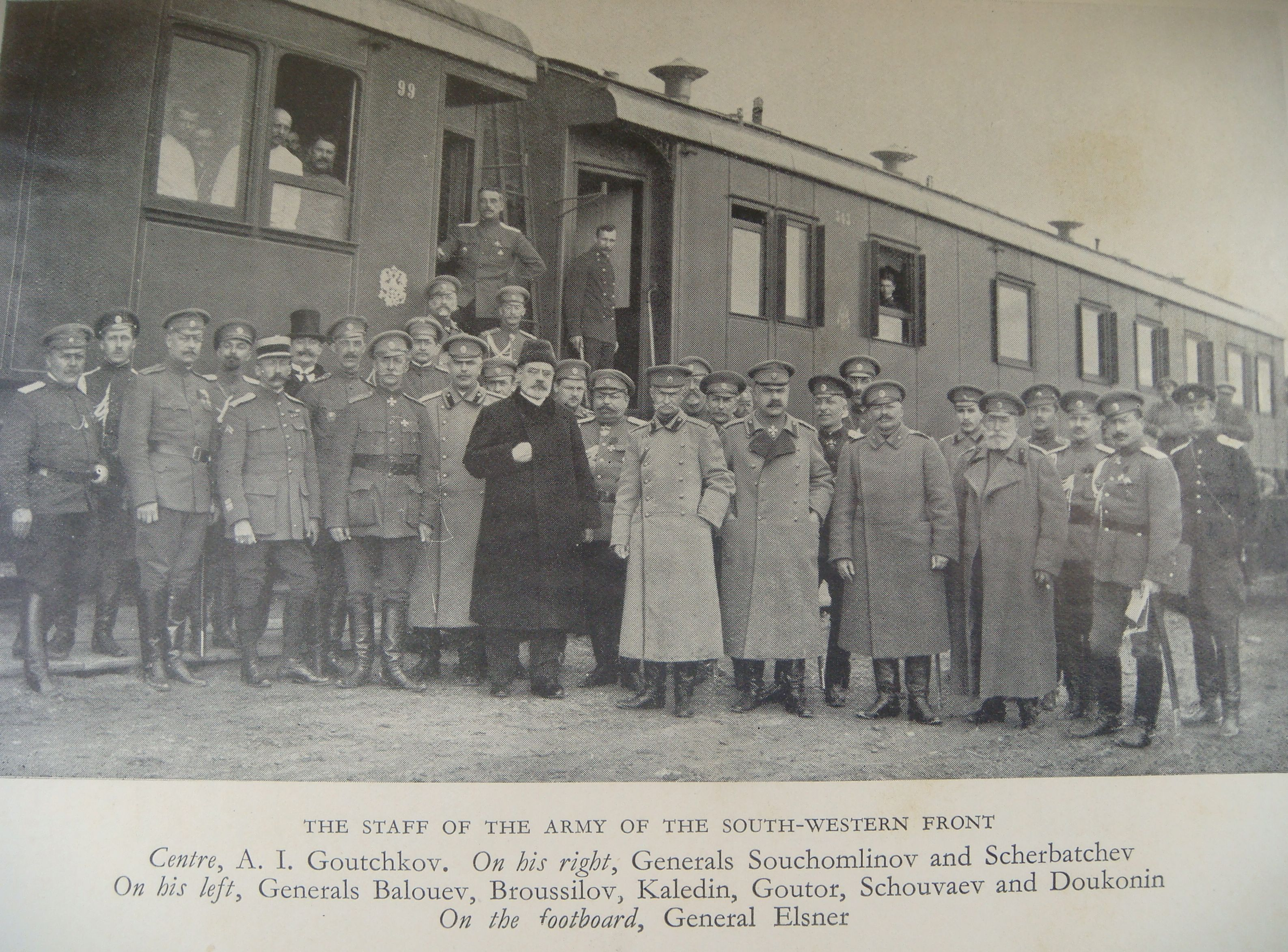 WWI. The staff of the Russian Imperial Army of the South-Western Front. 1917 y.